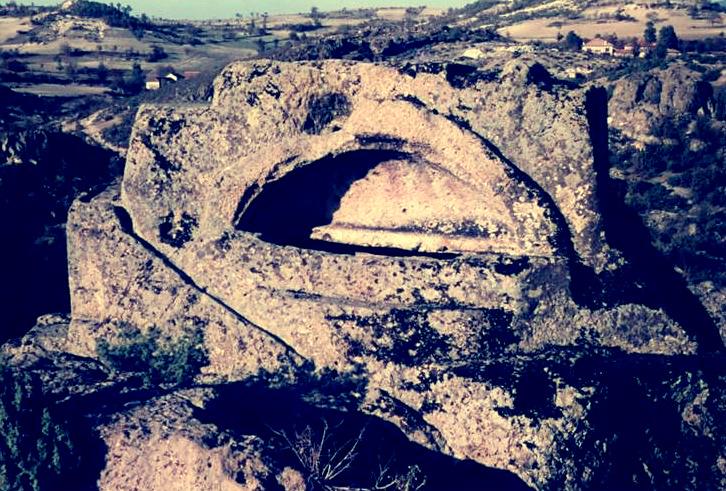 Tatul_turtle_BG